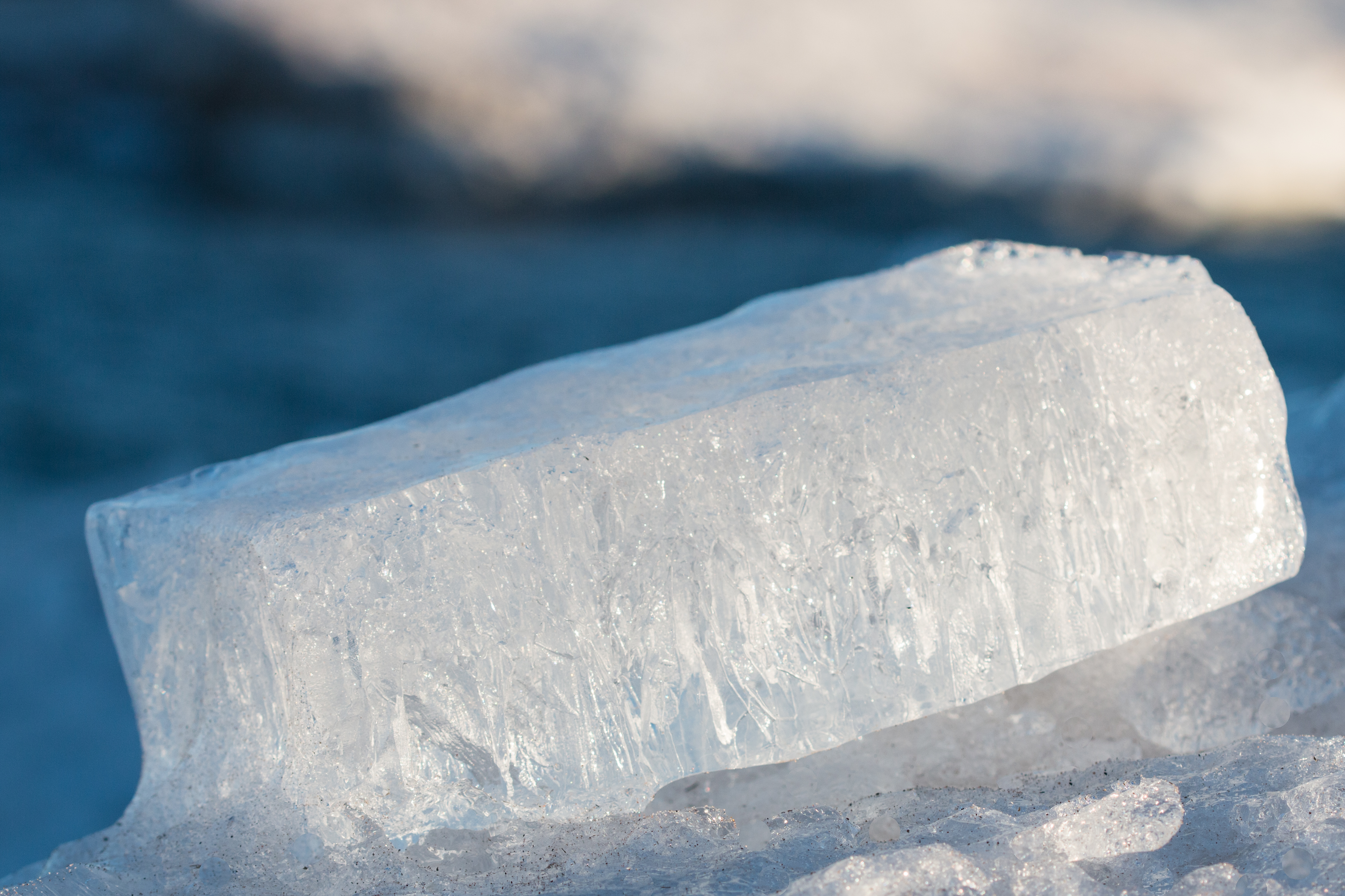 Ice Block, Canal Park, Duluth